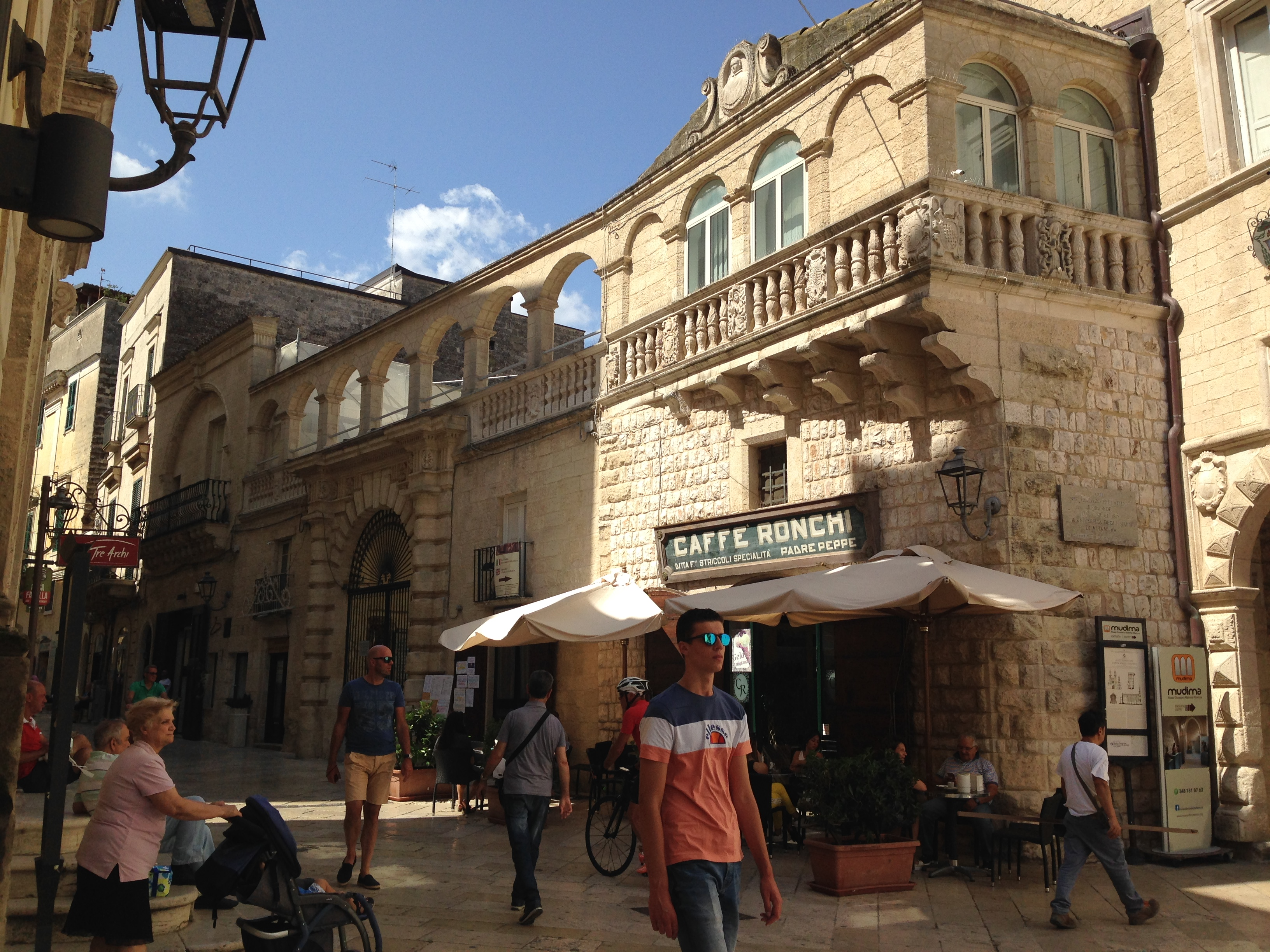 The building of the ancient Altamura University